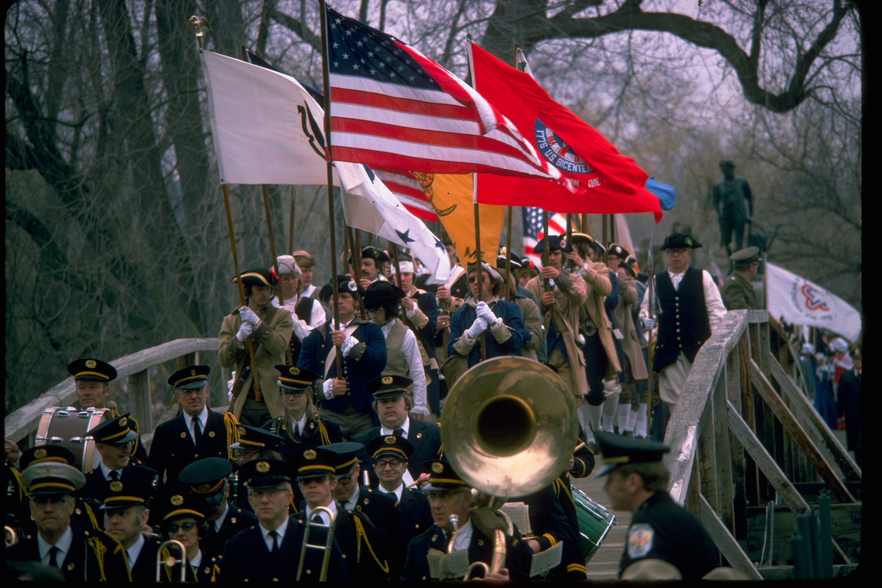 A Revolution begins - A Nation is born. At Minute Man National Historical Park the opening battle of the Revolution is brought to life as visitors explore the battlefields and witness the American revolutionary spirit through the writings of the Concord authors.